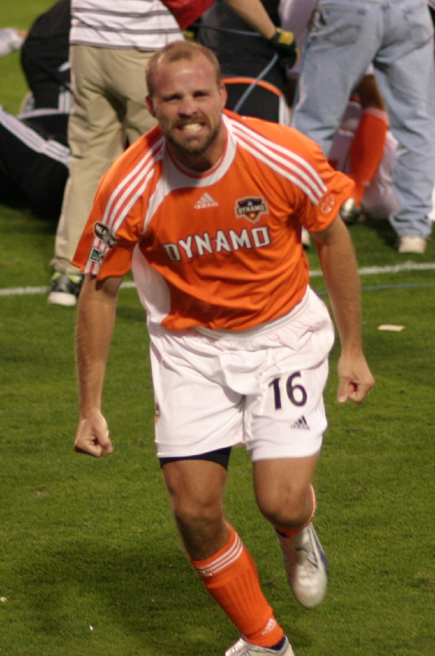 Craig Waibel celebrates after winning the 2006 MLS Cup.